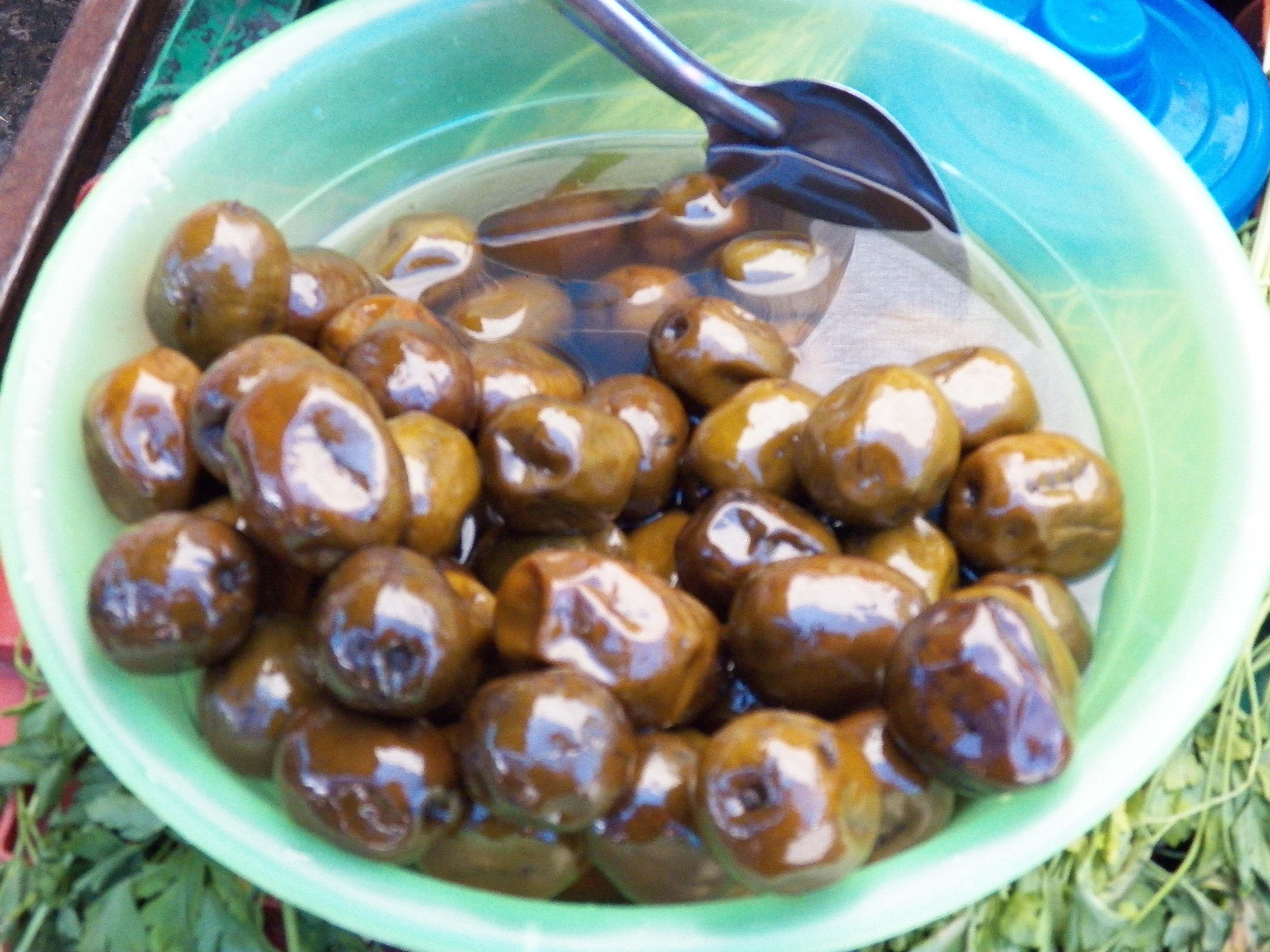 Preseved Hog Plum, Oaxaca, Mexico